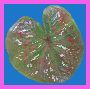 kom